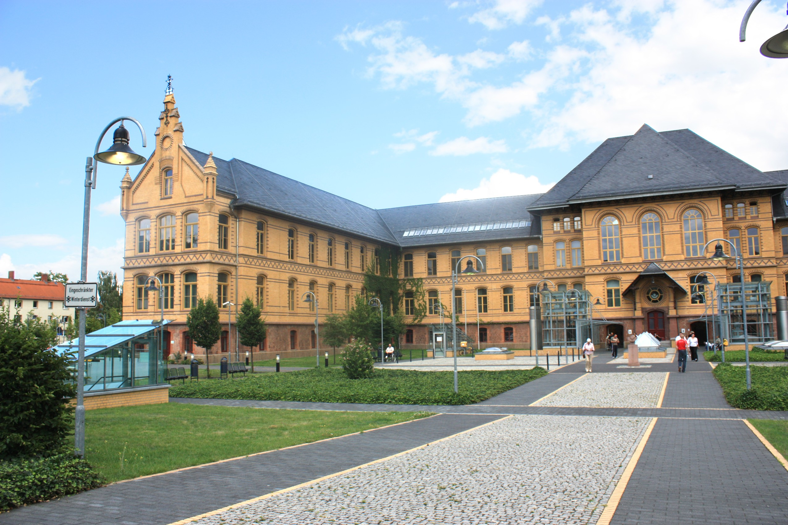 Halle (Saale), the hospital "Bergmannstrost"